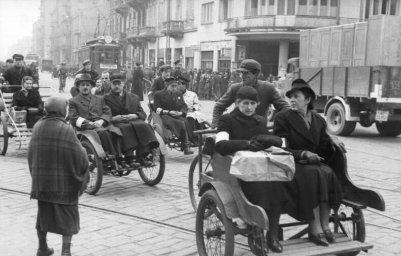 Warsaw Ghetto: Żelazna street looking South from Chłodna street. In the back building of Chłodna 25 corner of Żelazna.